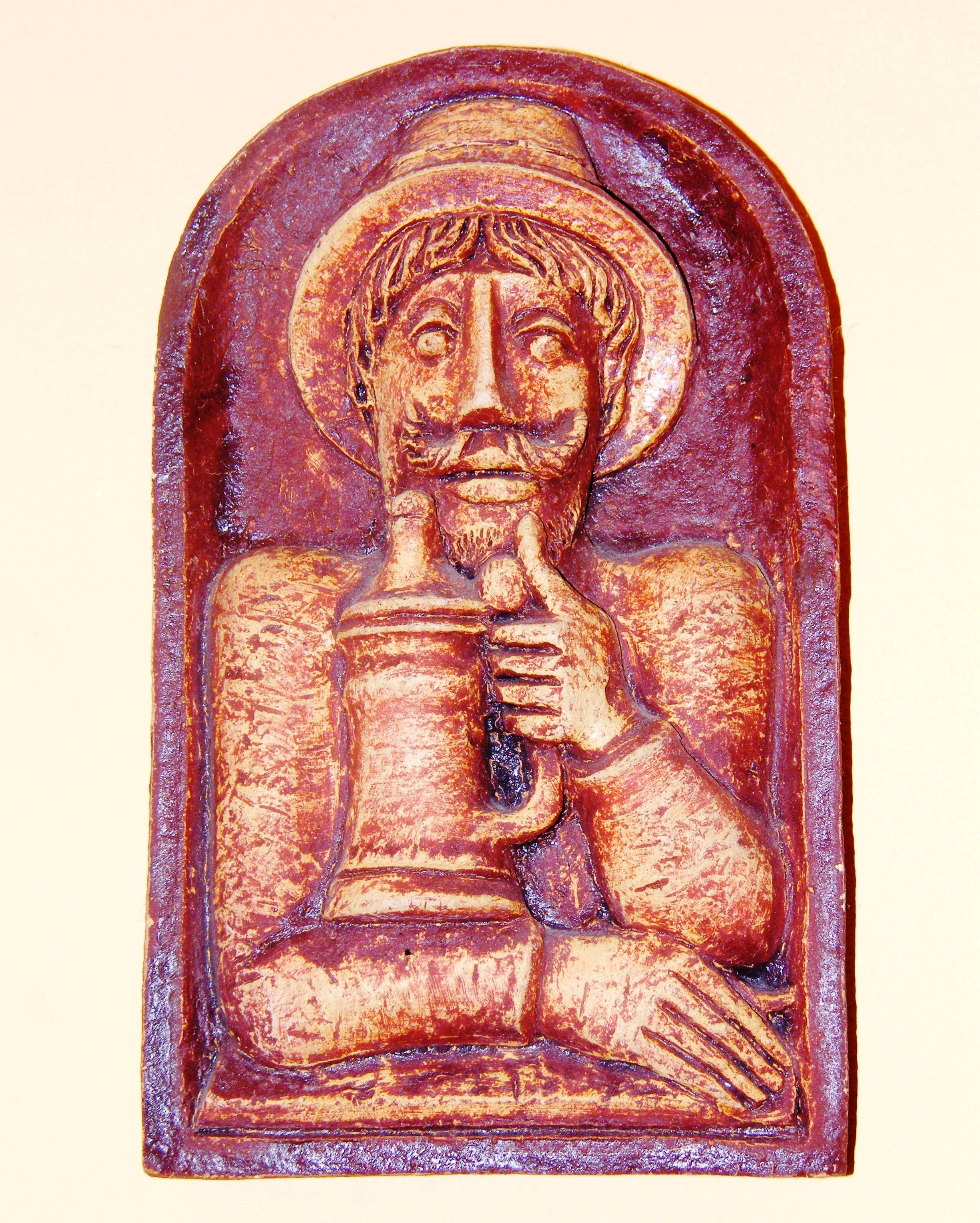 Németh János - Búsuló paraszt